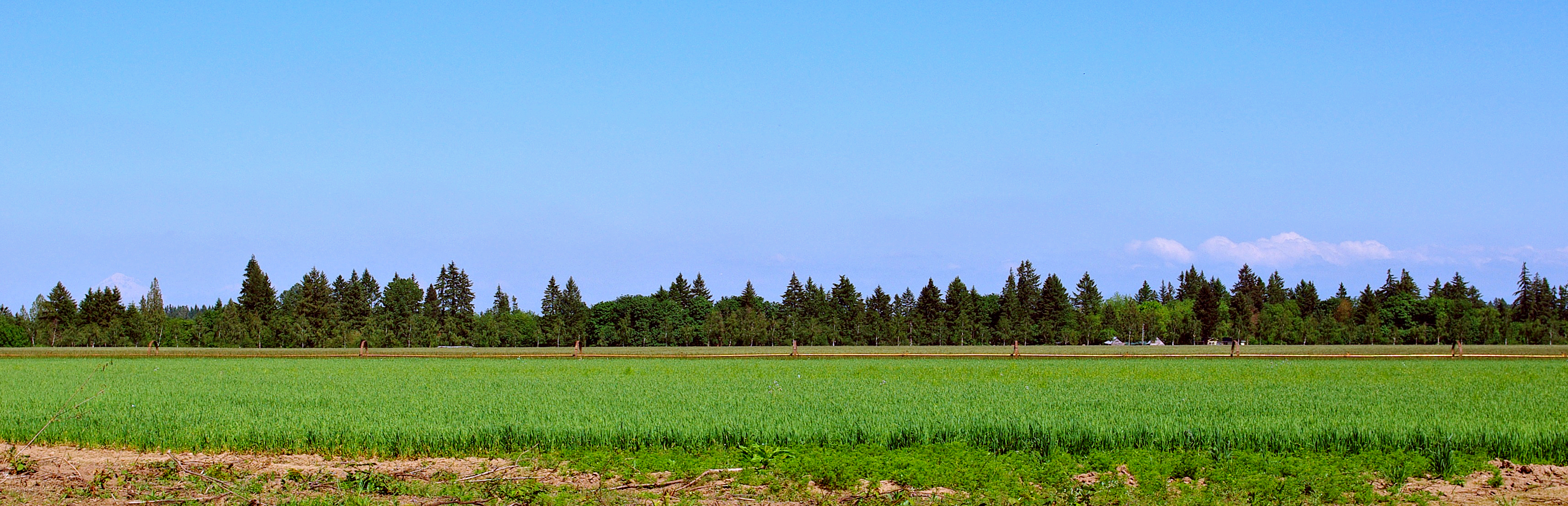 French Prairie southeast of Champoeg